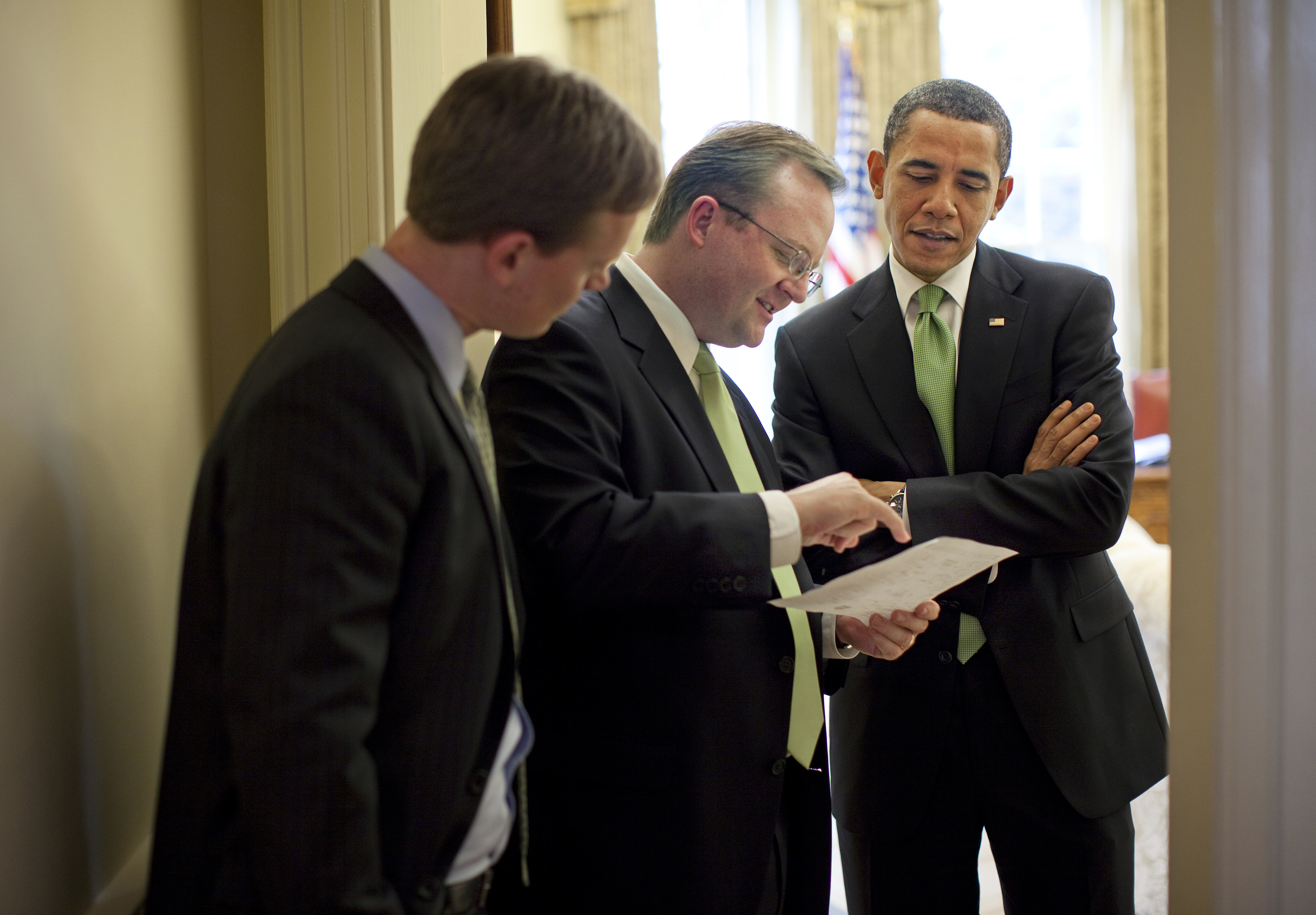 President Barack Obama talks with White House Press Secretary Robert Gibbs, middle, and Assistant Press Secretary Tommy Vietor, left, in the doorway to the Oval Office at the White House.